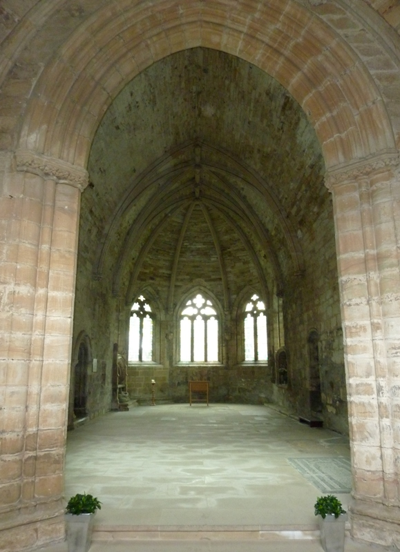 Seton Collegiate Church, East Lothian, Scotland - choir, looking east